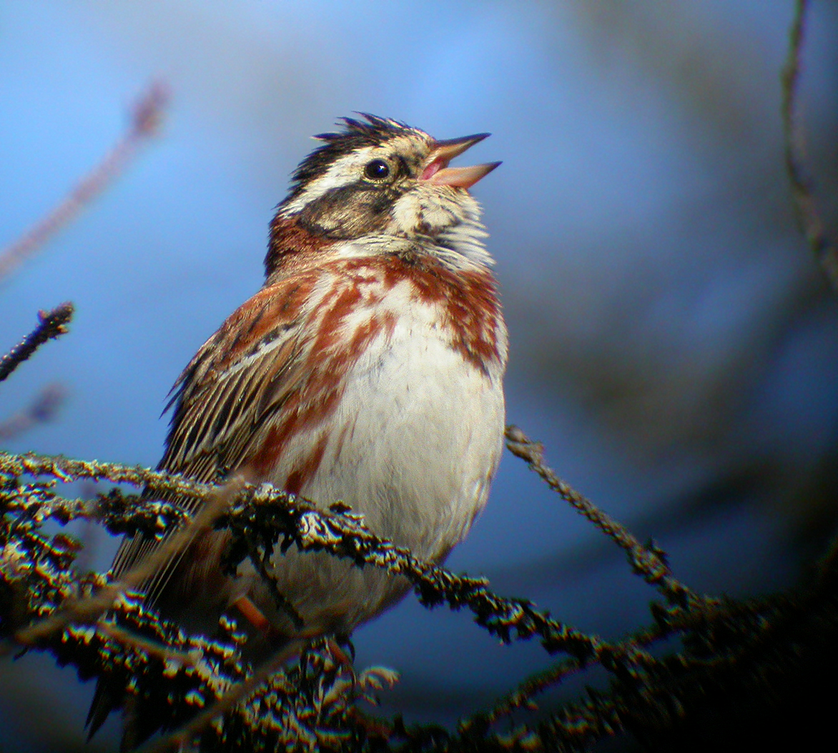 Rustic bunting (first summer male) from Agåa, Hedmark, Norway